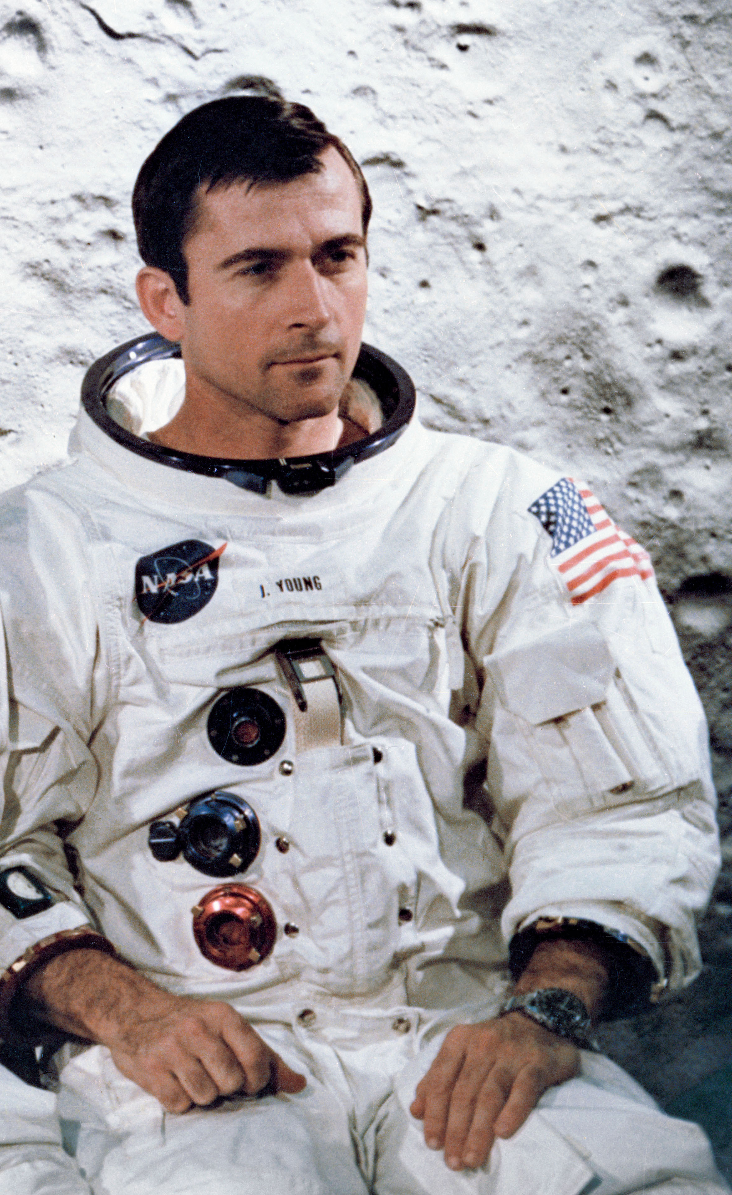 John W. Young - Apollo 10